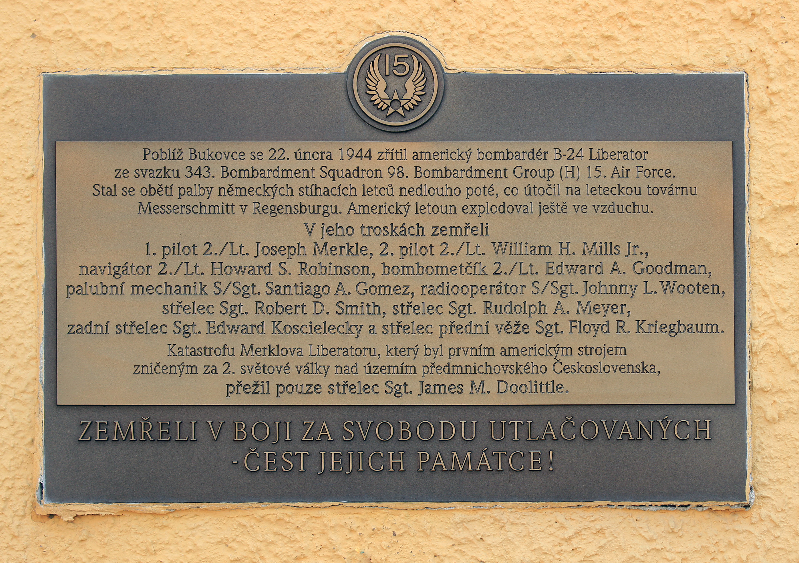 Memorial plaque in Bukovec, Czech Republic.